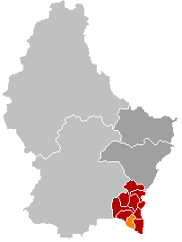 Burmerange municipality location (valid until 1 January 2012). Own edit of Kanton RemichLocatie.png